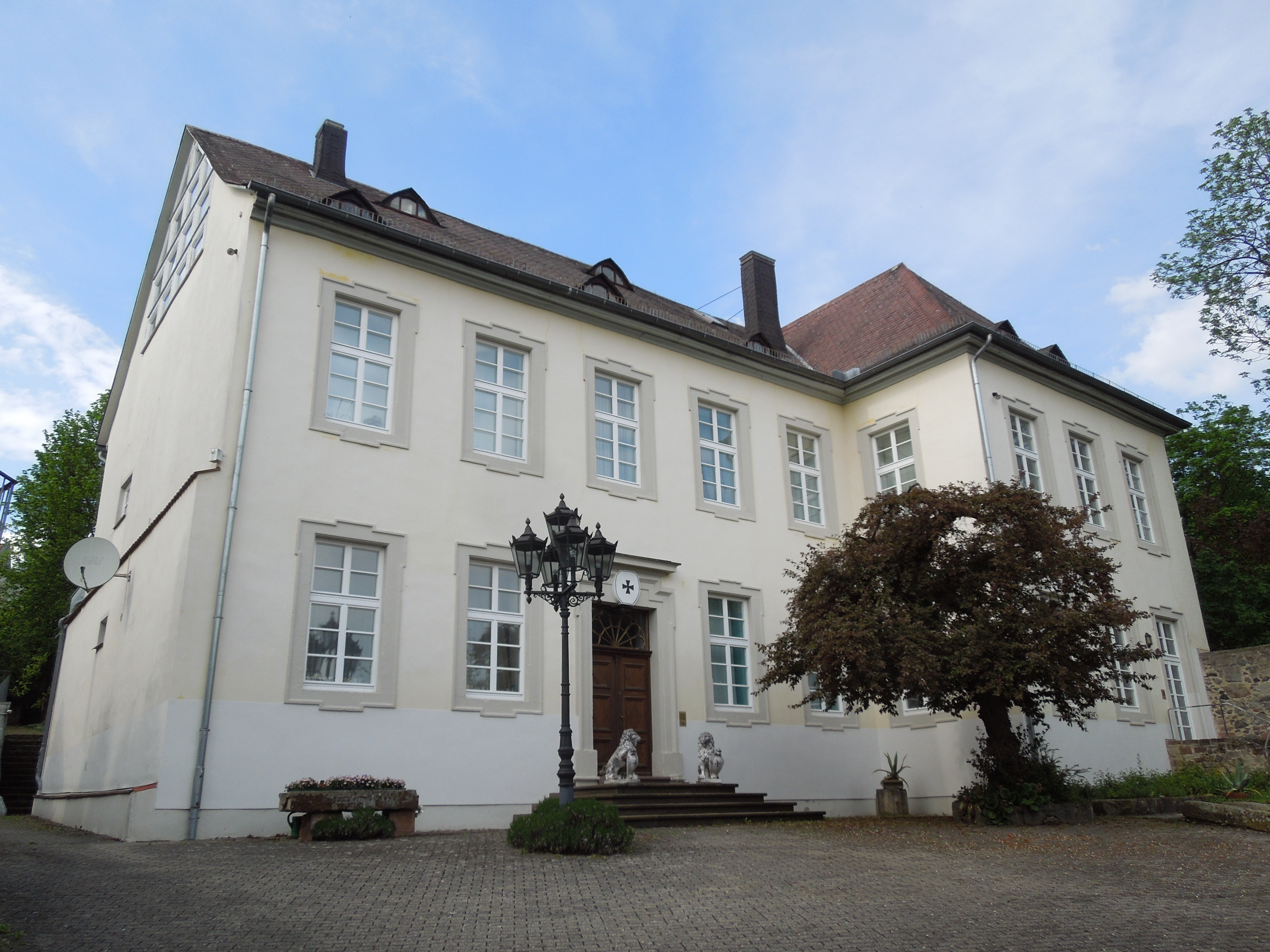 The former house of the order of the Teutonic Knights in Fritzlar, 2016; today privately owned dwelling